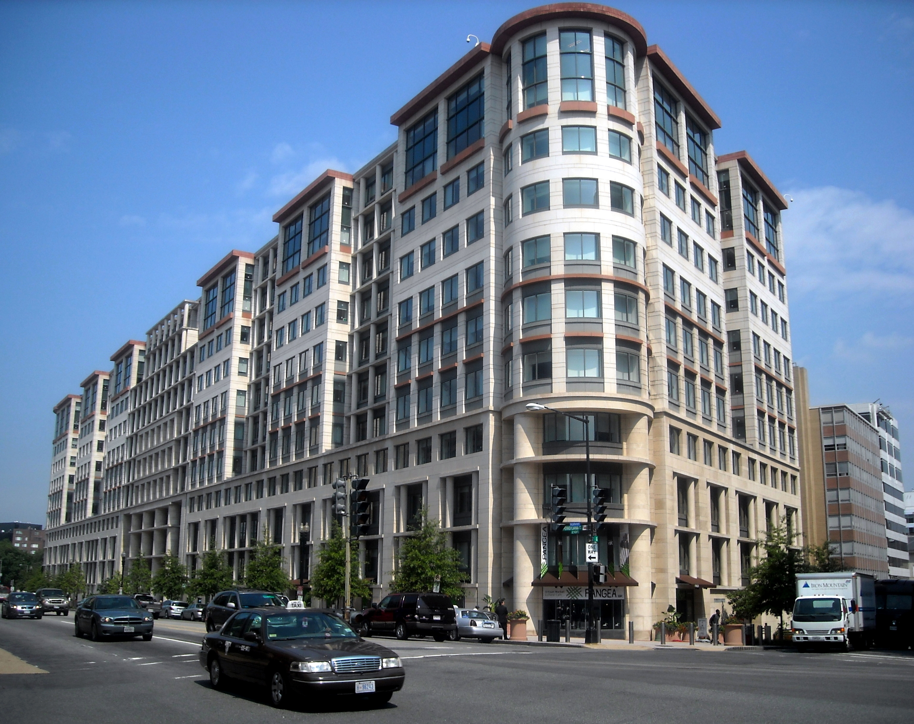 The International Finance Corporation headquarters, designed by Architects Michael Graves, and Vlastimil Koubek, in collaboration with Structural Engineer, Emanuel E. Necula, PE/PC, located at 2121 Pennsylvania Avenue, NW in the Foggy Bottom neighborhood of Washington, D.C.